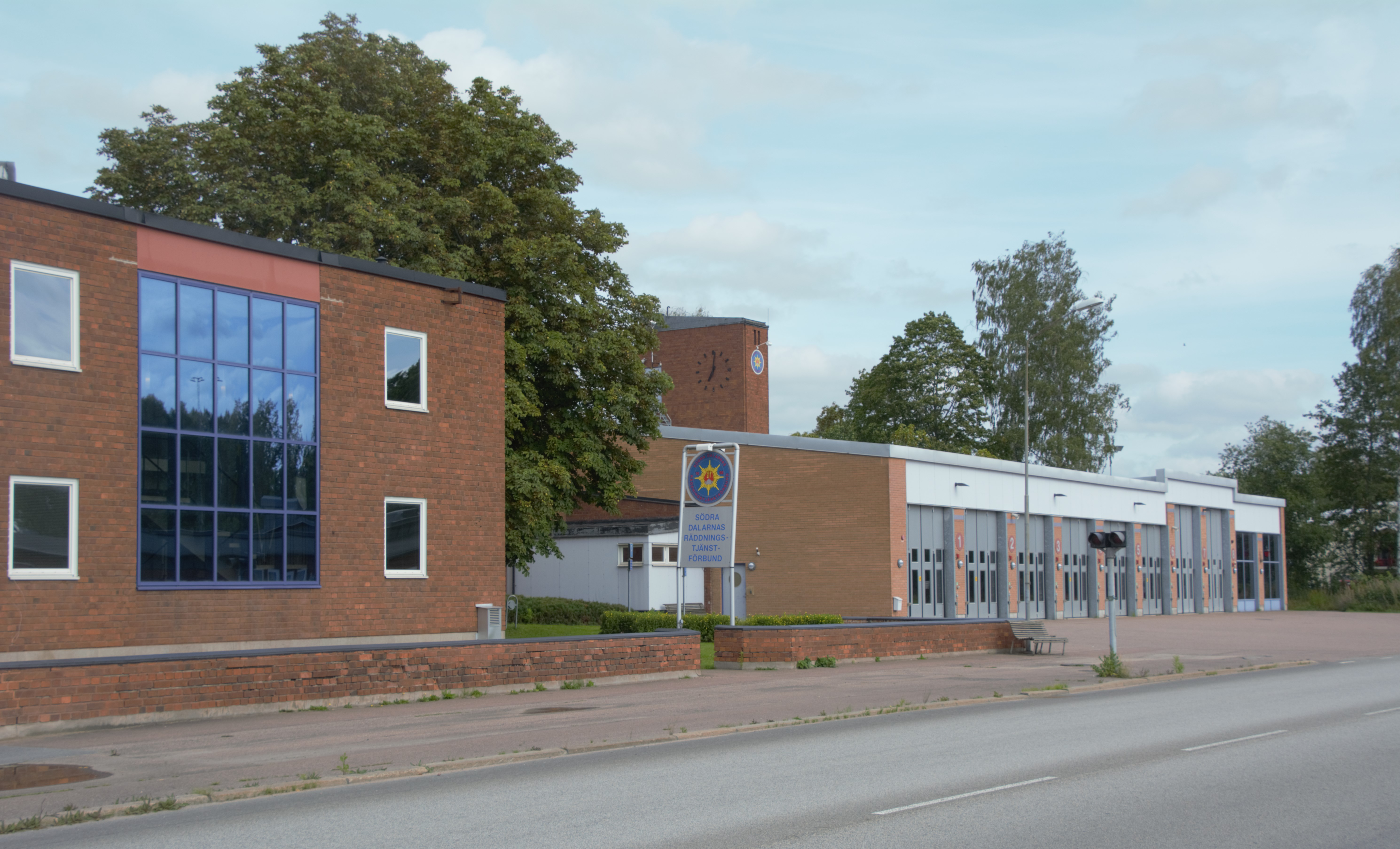 Avesta fire brigade station